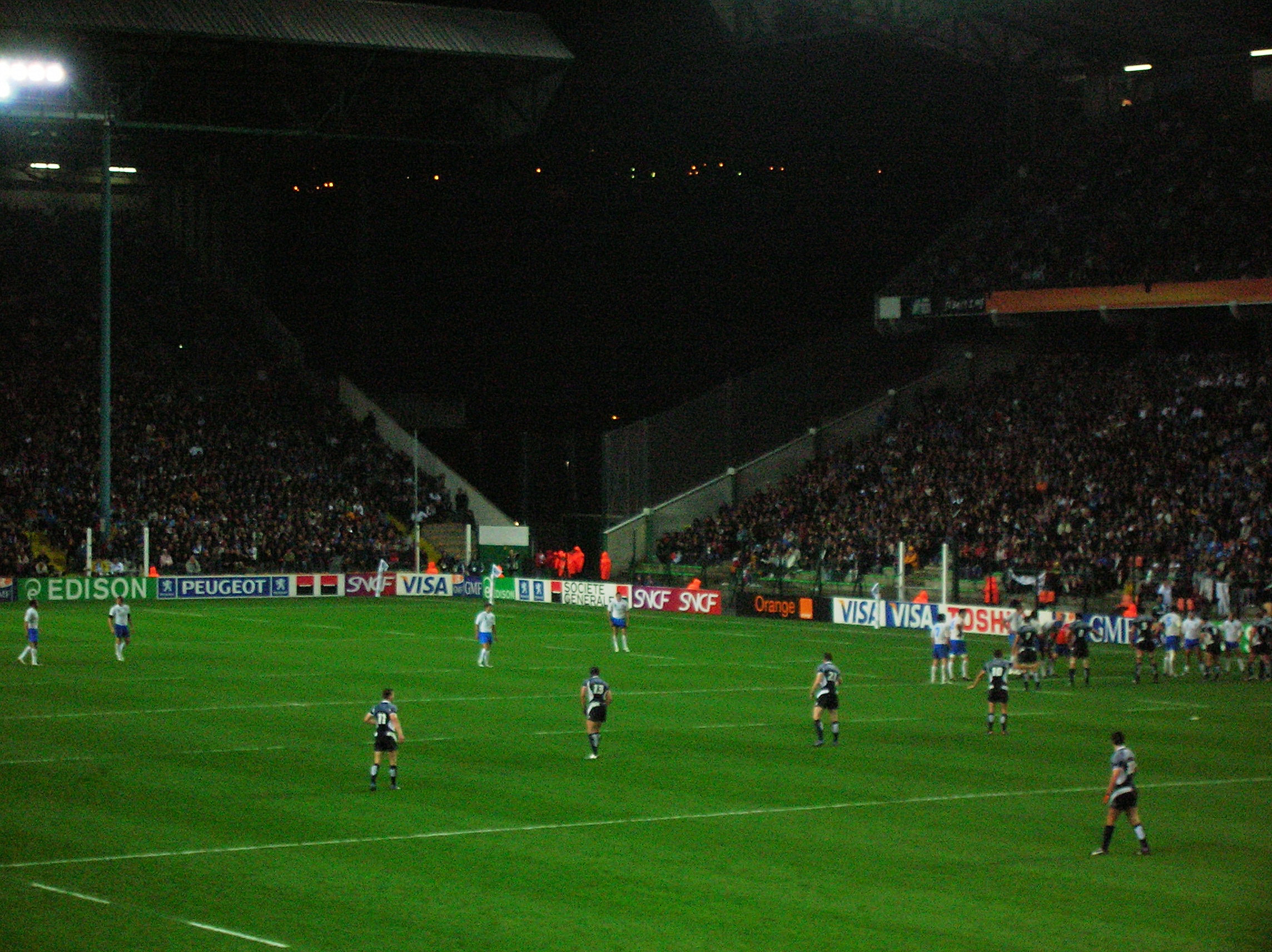 Pool match between Scotland (dark blue) and Italy (white) during the 2007 Rugby World Cup. Match played in St-Etienne's stadium Geoffroy Guichard (France). Result was 18-16 for Scotland.